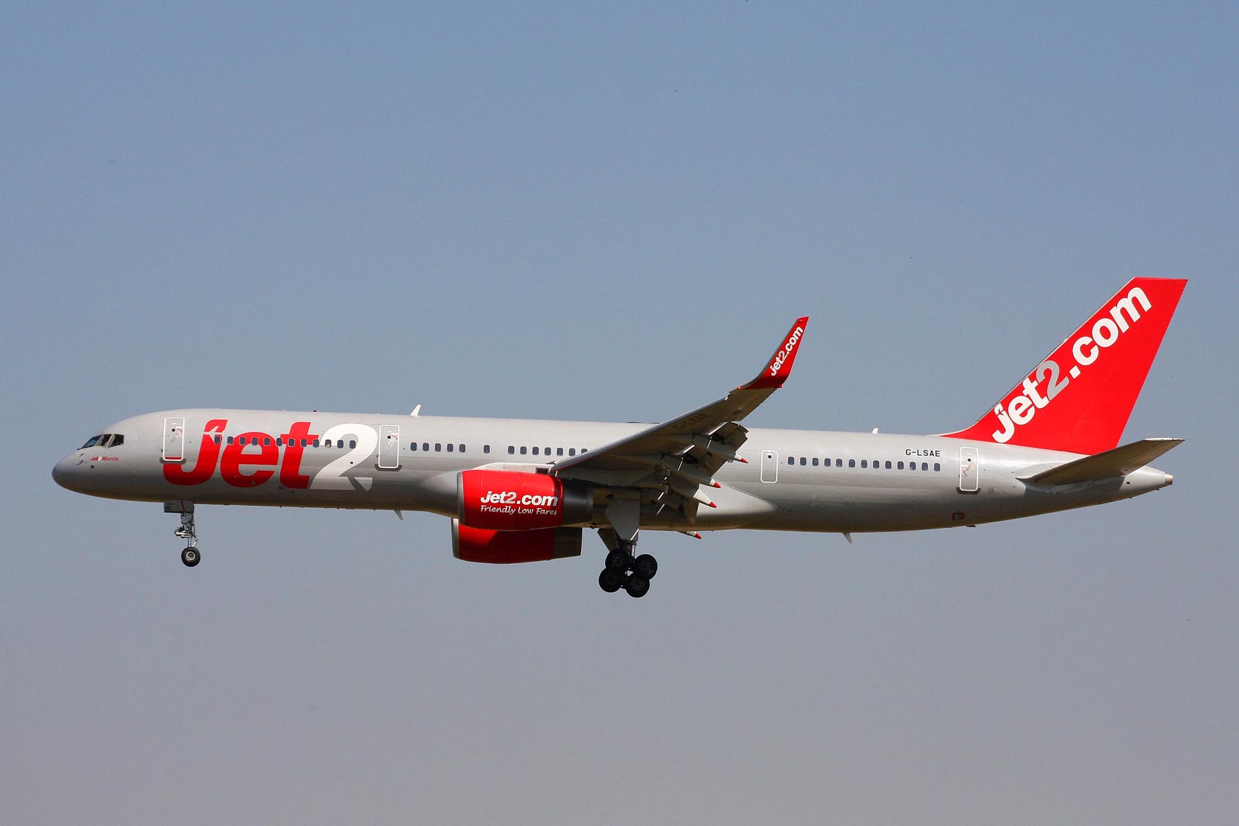 now with winglets